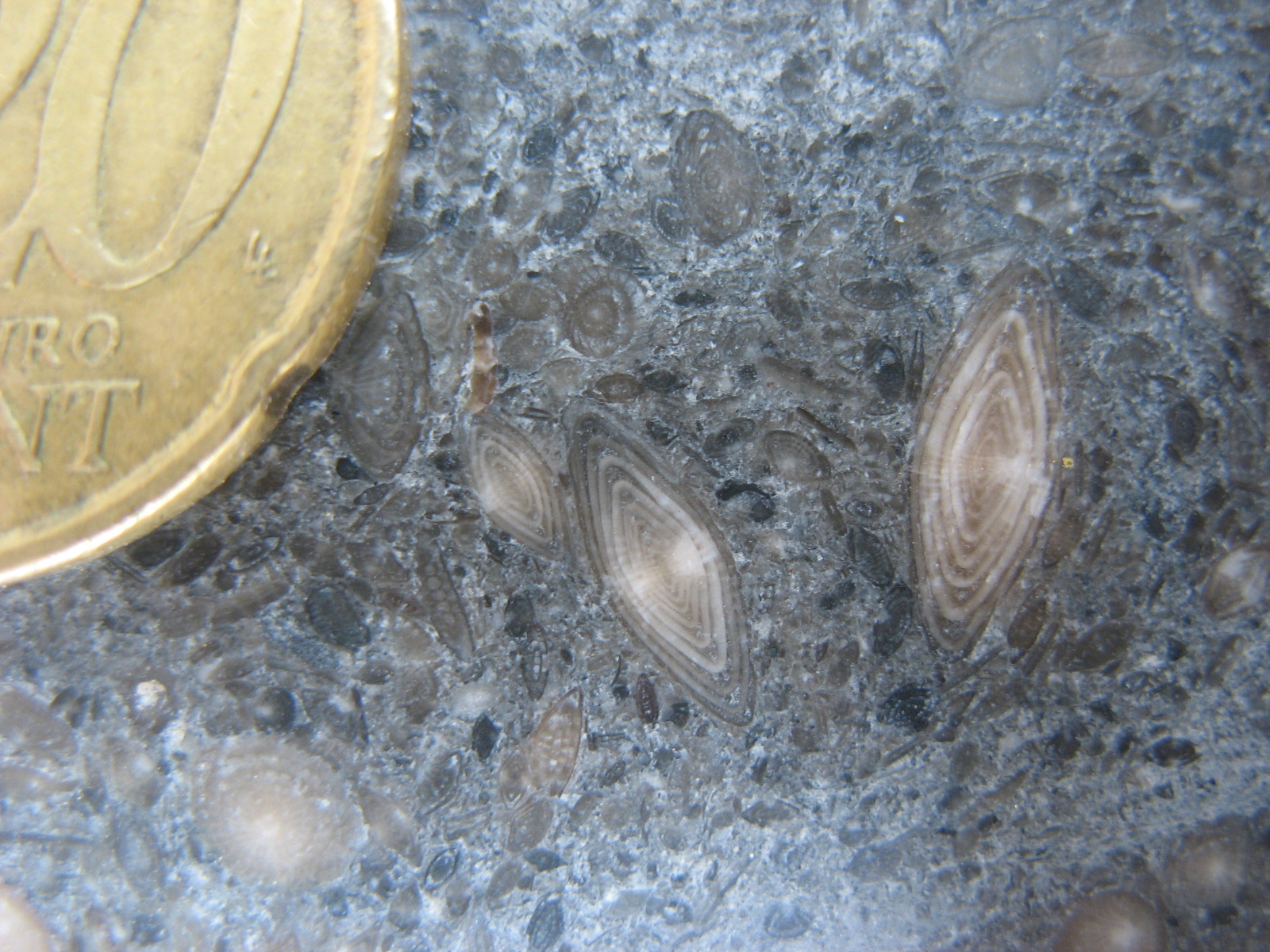 Nummulitic limestone, polished axial sections. Eocene. "Girona stone", Spain. (Scale coin: 0.20 EUR, Ø 22.25 mm)